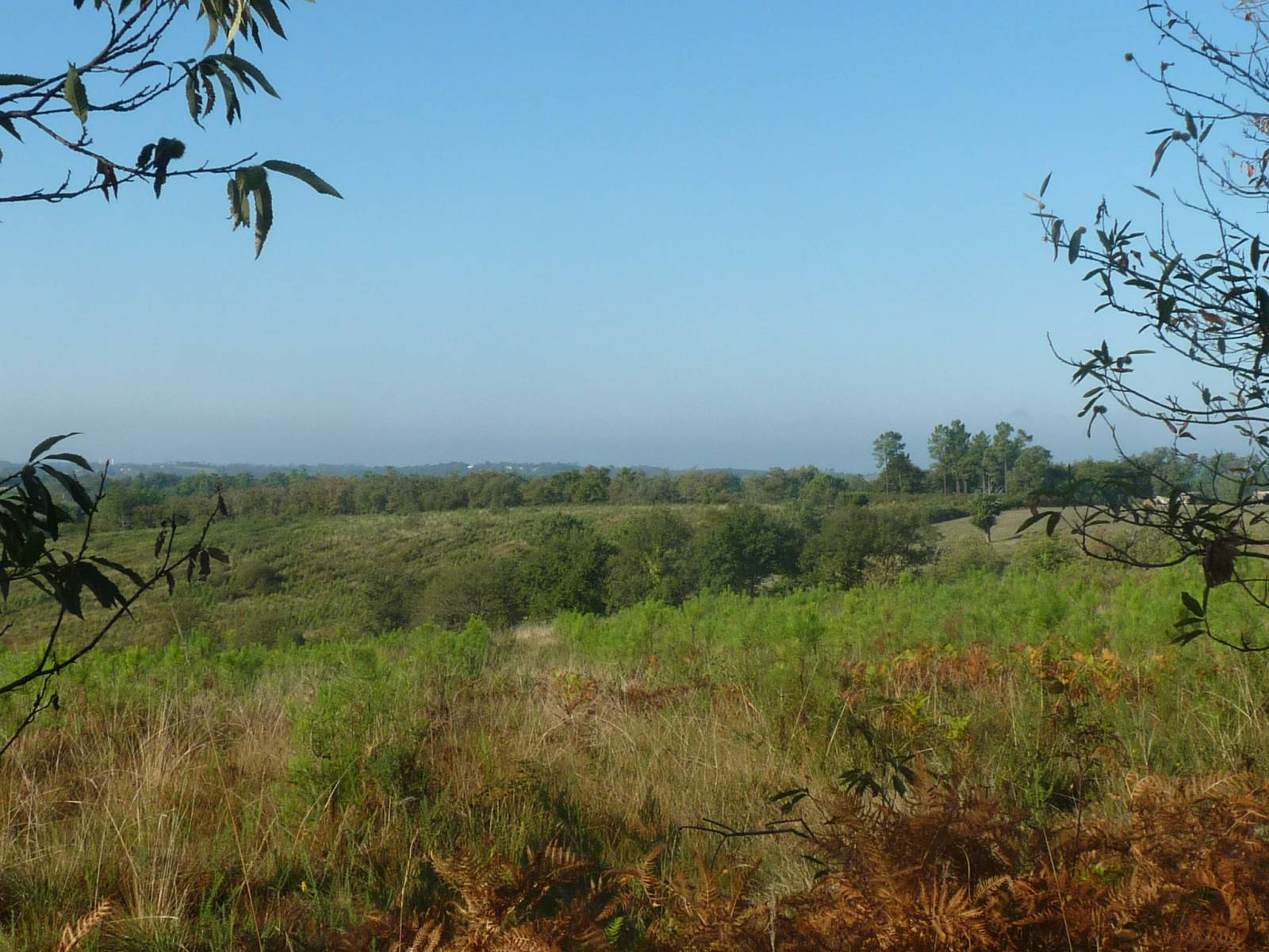 Double Forest at Sauvignac, Cherente, SW France